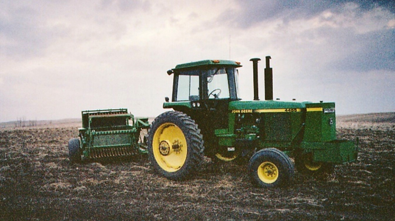 A John Deere 4455 tractor and a Summers rotary rock picker, Hurdsfield, Wells County, North Dakota, USA. – "Had Many hours on these, Zig Zagging all over the fields picking up rocks … one of my favorite jobs. But there is always ONE MORE ROCK that you just have to go and get …"